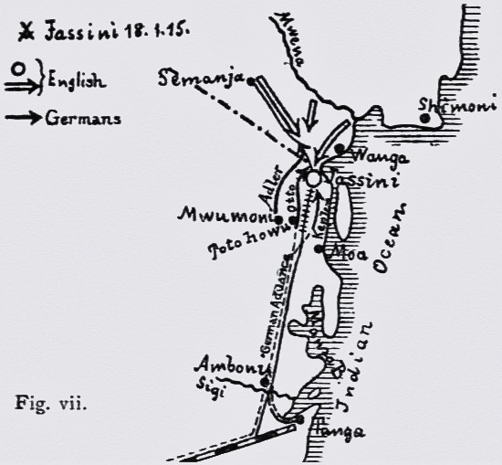 Drawing of the Battle of Jassini found on page 105 of "My Reminiscences of East Africa" by General von Lettow-Vorbeck